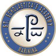 SSAM official school logo